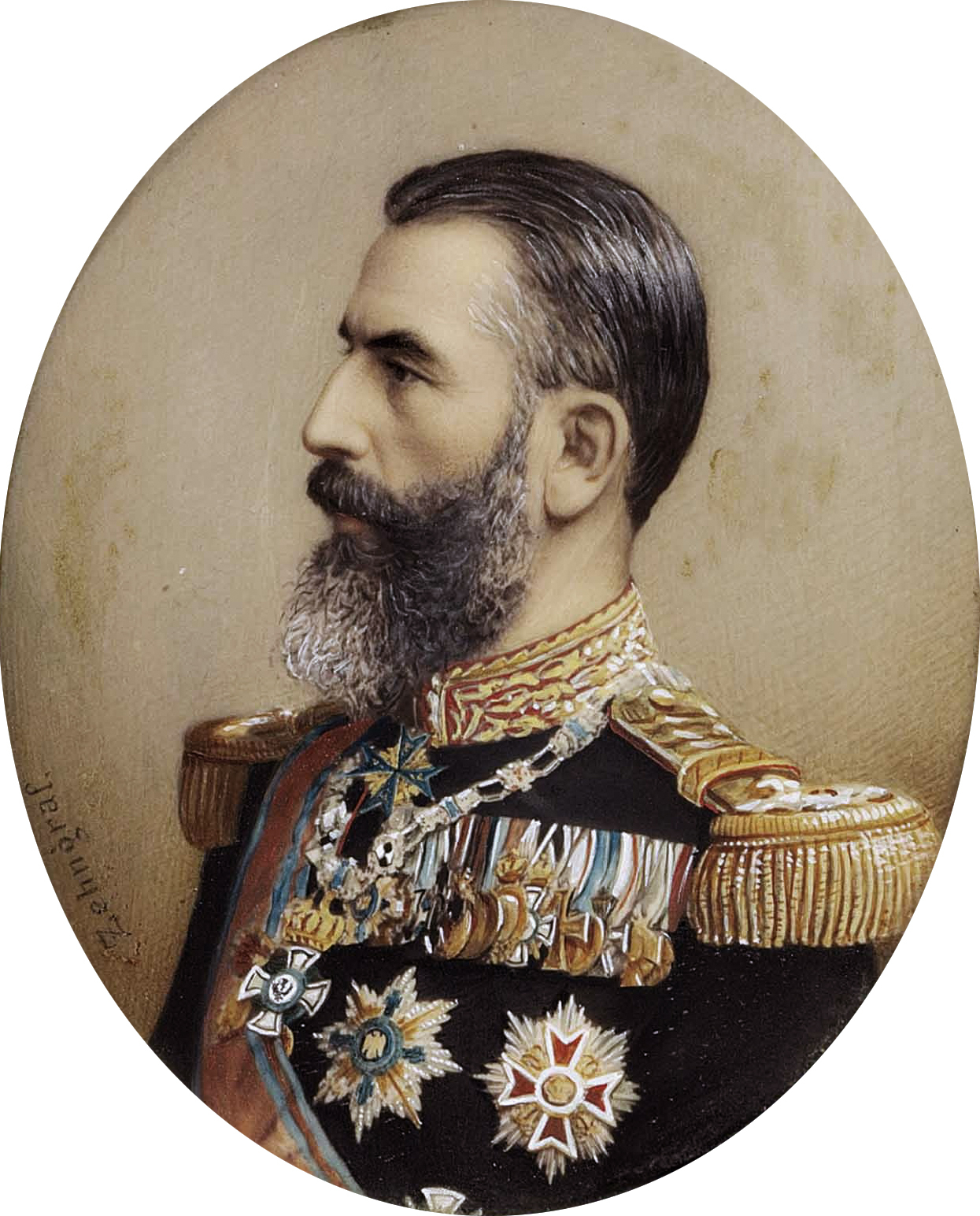 Carol I (1839-1914), King of Romania 1866-1914, wearing numerous orders and medals including the chain of the Order of the House of Hohenzollern, the breast-stars of the Order of the Crown of Romania and the Star of Romania, the jewel of the Royal Prussian Order Pour le Mérite on ivory oval 5.8 cm signed b.l.: Zehngraf